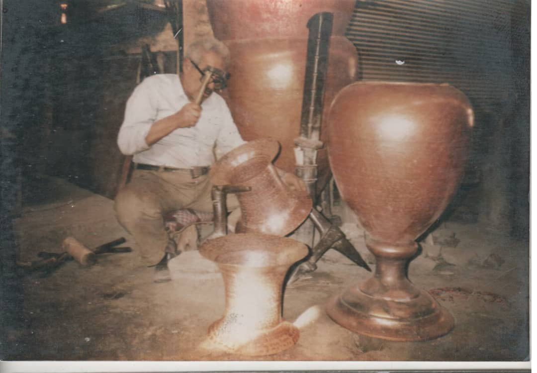 Isfahan Copper Bazaar in 1990 Picture of the Haj Abdolali Satvat, one of the names of the founders of the copper industry in Isfahan